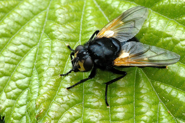 Picture taken in Commanster, Belgian High Ardennes . Species: female Mesembrina meridiana